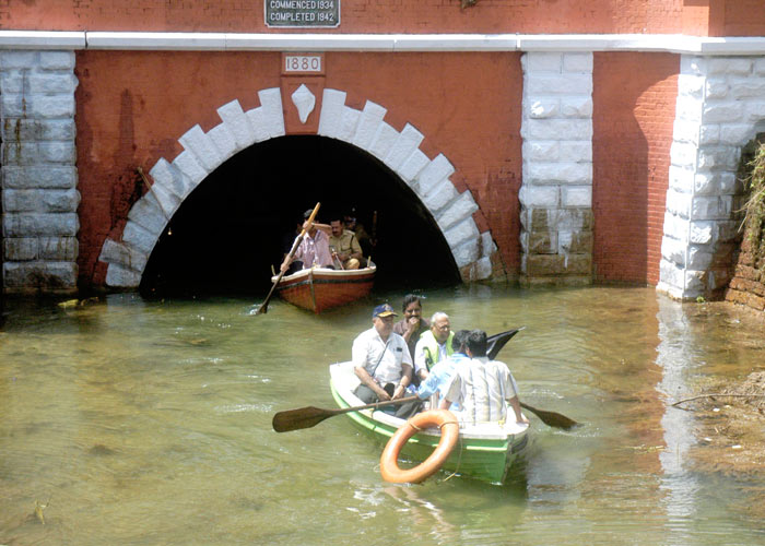 View of Varkala Tunnel